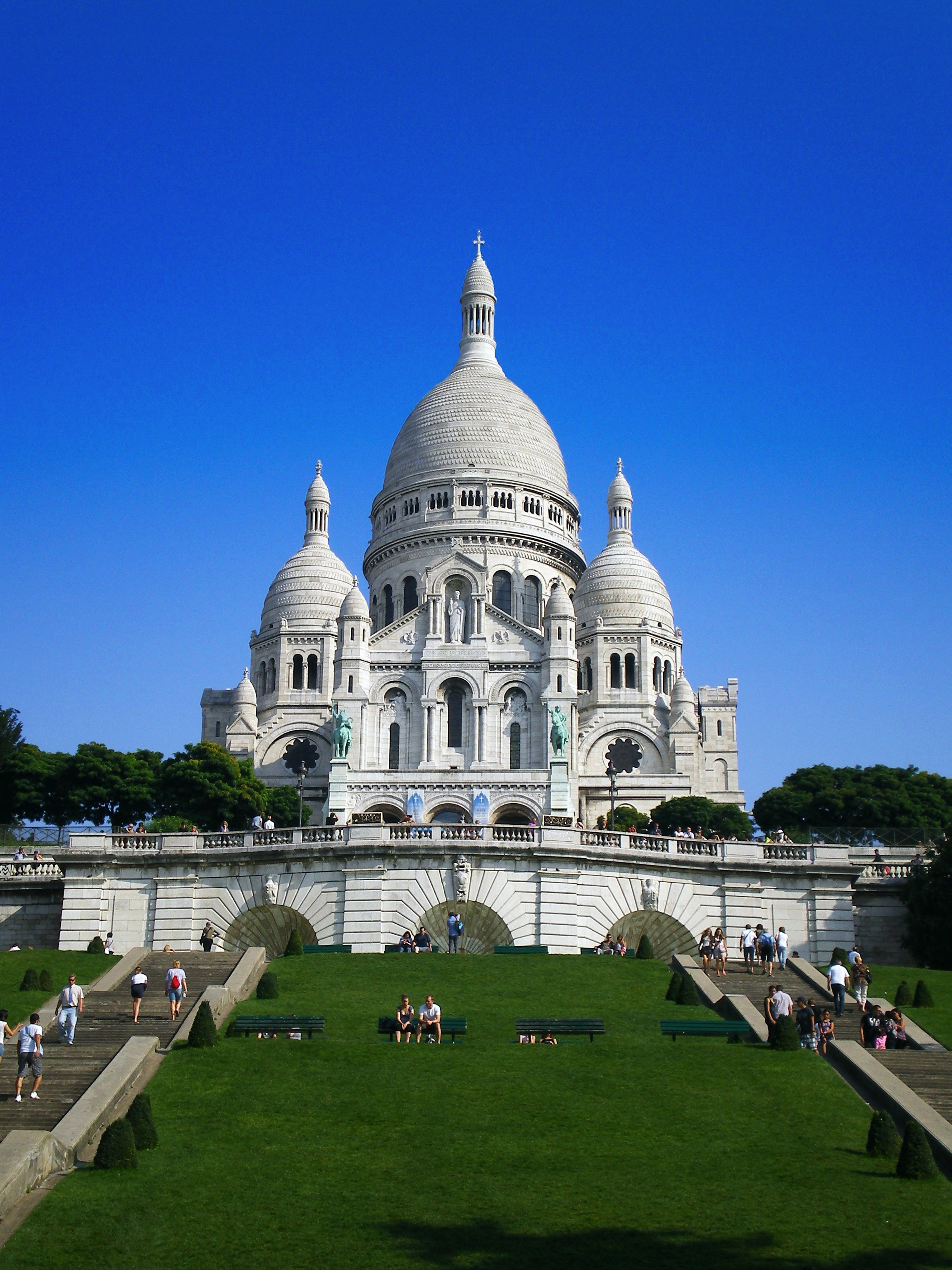 Le Sacre Coeur, front side (Paris - France)